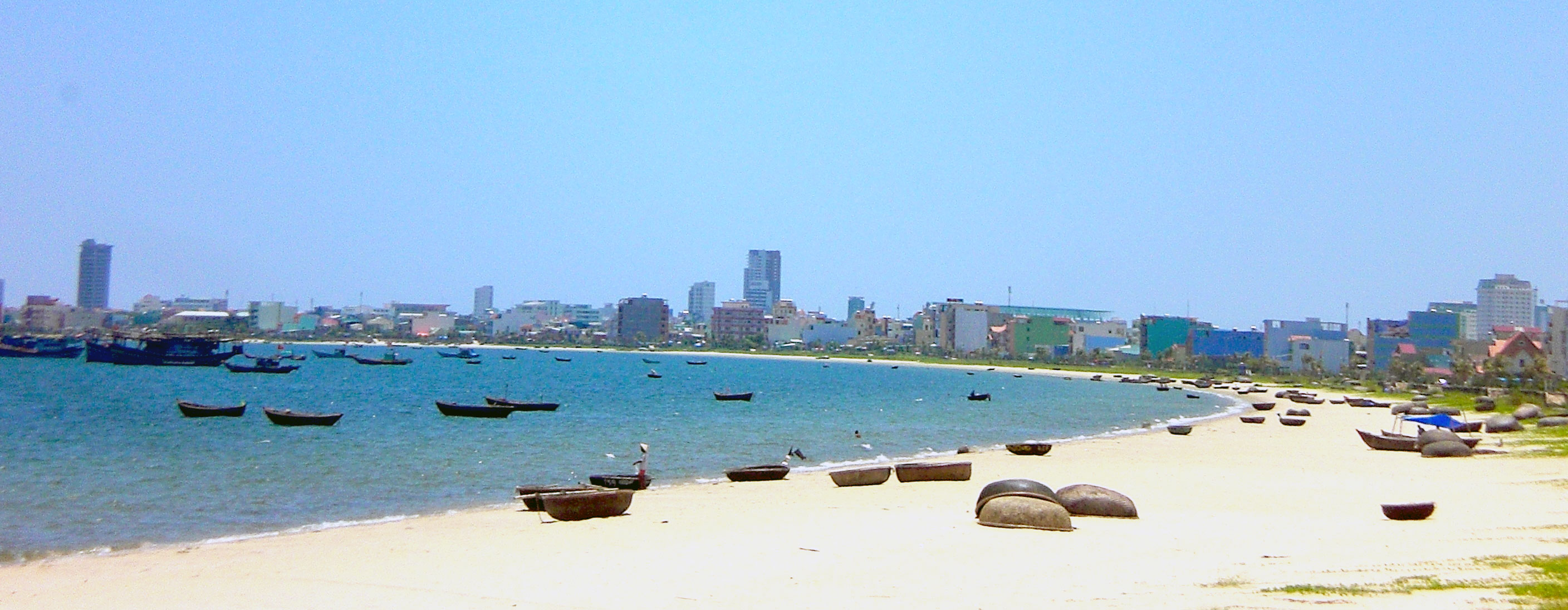 Beach of Da Nang, one of the four most beautiful beaches in the world!